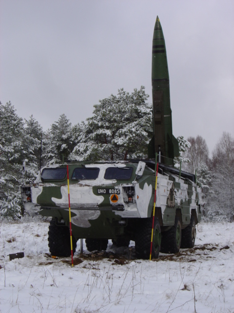 10-12.02.2004 - fire training and its live practice in winter in Poland within Drawsko Training Area. Winter camouflage visible. The launcher ready to fire.